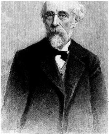 Portrait of Theodor Nöldeke